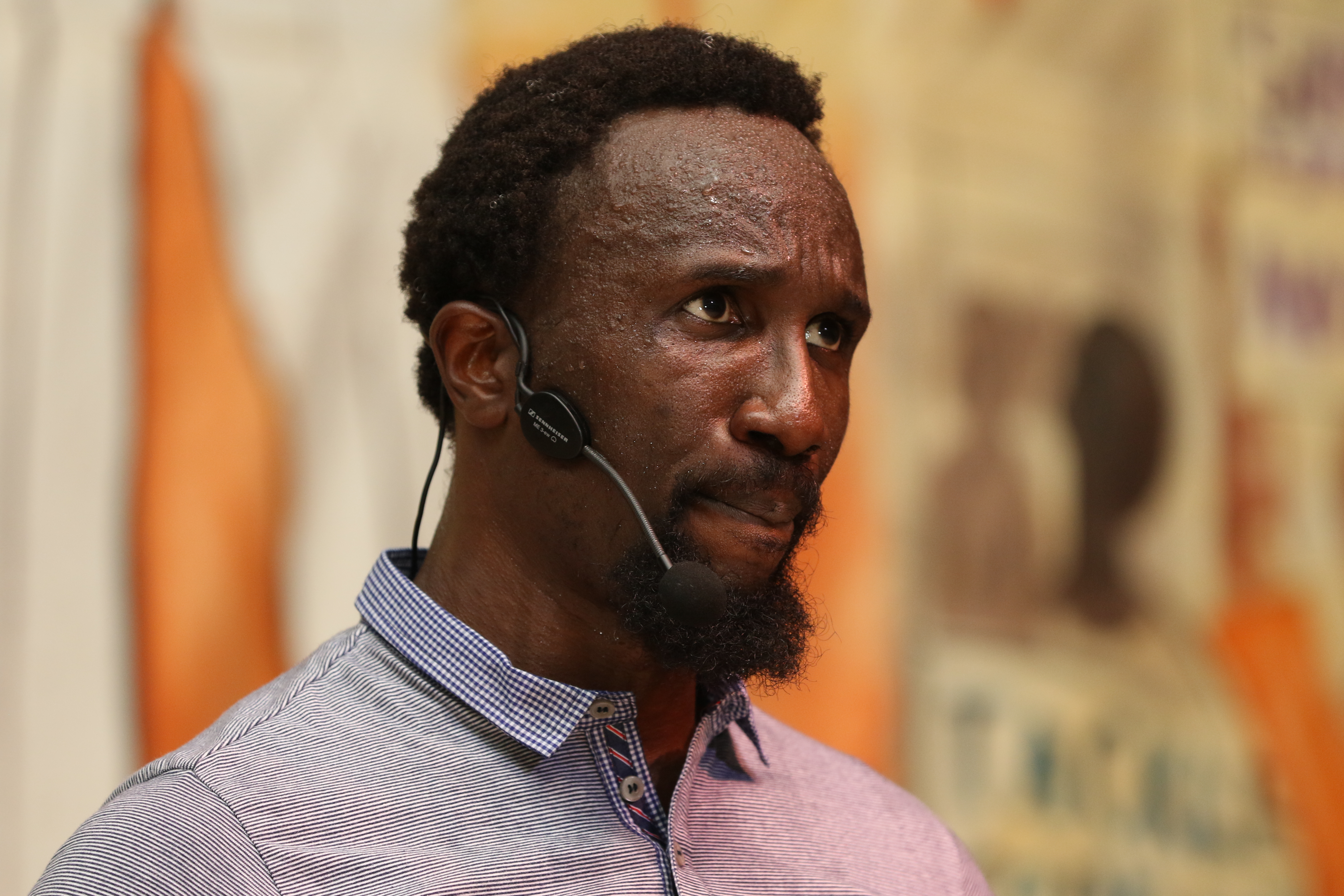 Dike Chukwumerije preparing for the first public presentation of his stage poetry production, "Made In Nigeria" on September 30, 2016.